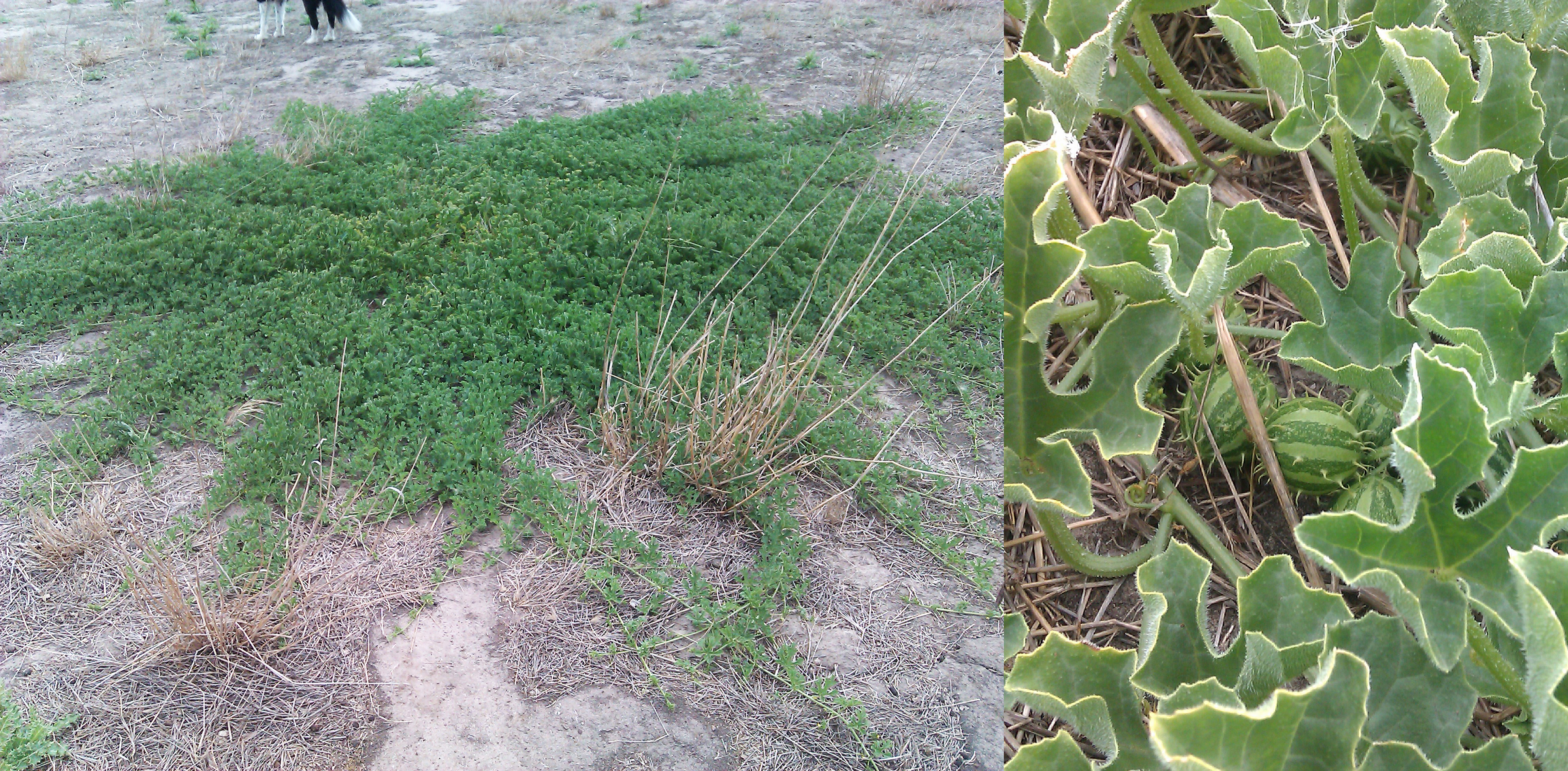 Cucumis myriocarpus, Paddy Melon, growing as a weed in Kangaroo Island, South Australia. Plant on left spreads around 2.5m; fruit on right around 20mm diameter. This is the full size of the fruit. Not to be confused with Citrillus Lanatus which has a larger fruit and larger, greyer leaves.